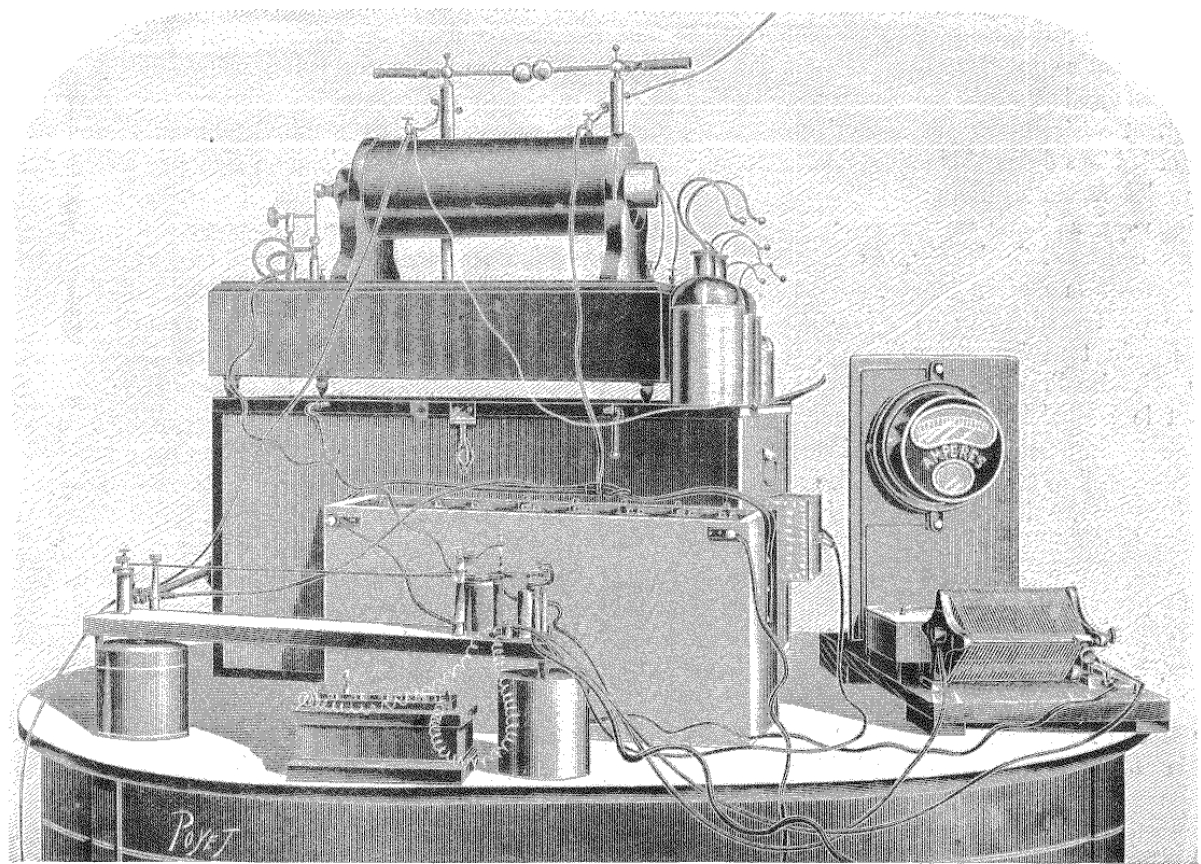 Repetitor of Emile Guarini-Foresio